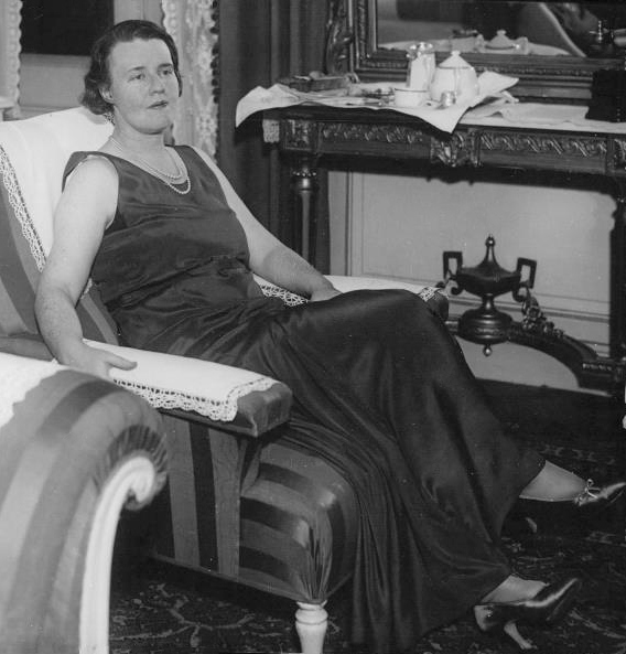 Dorothy Thompson, American journalist